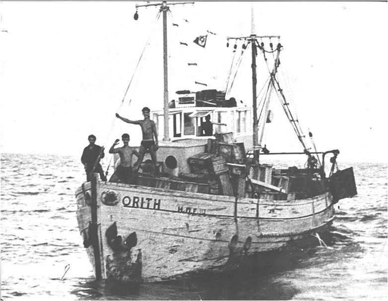 Fishing boat "Orit"